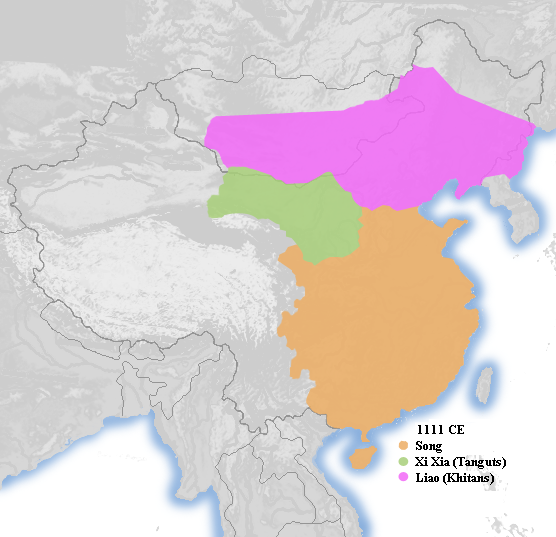 Map of Eastern China and the Song Dynasty region in 1111 CE.